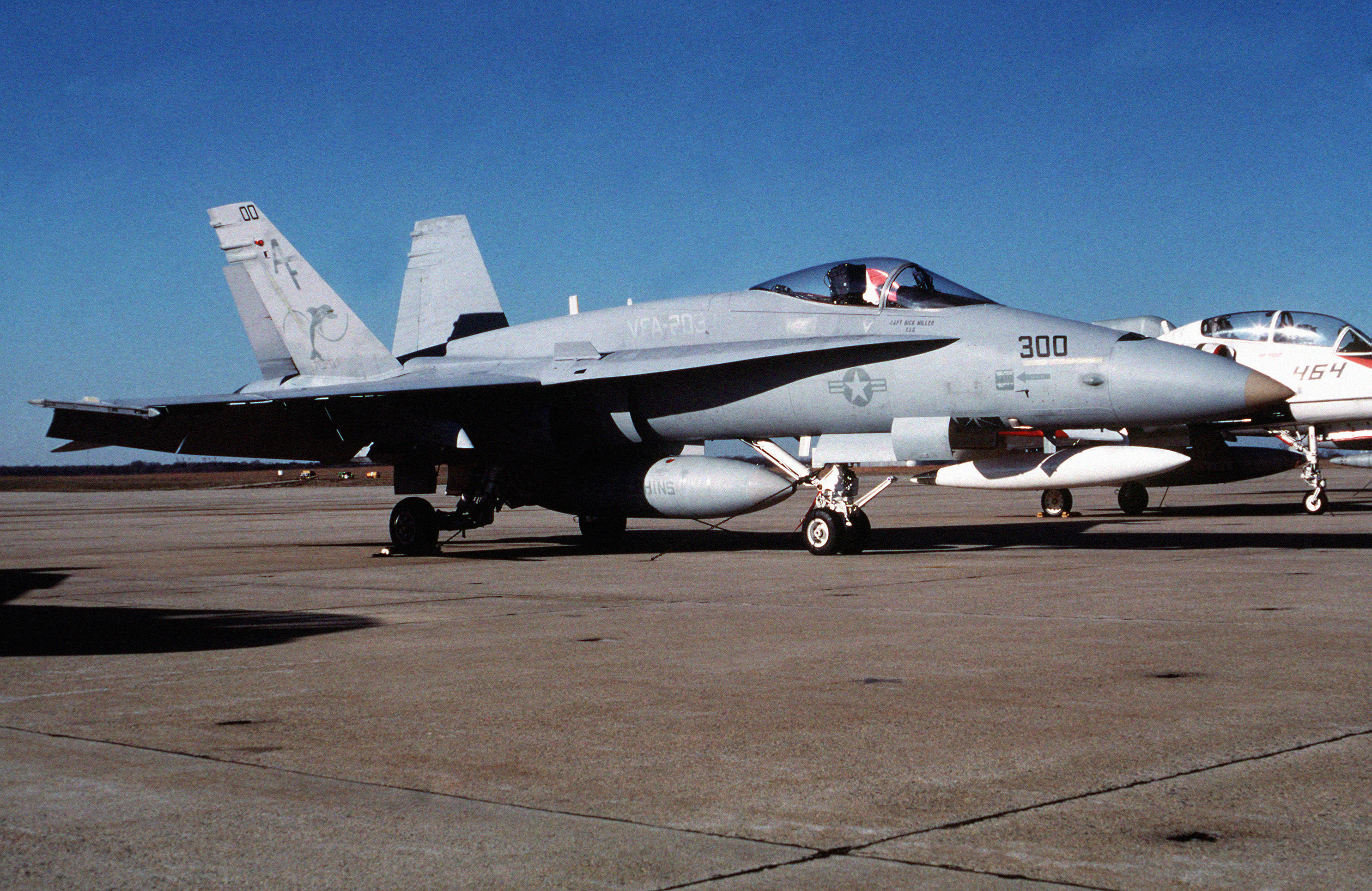 A U.S. Navy Reserve McDonnell Douglas F/A-18A Hornet of Strike Fighter Squadron 203 (VFA-203) "Blue Dolphins" on the flight line at Andrews Air Force Base, Maryland (USA), in 1990.